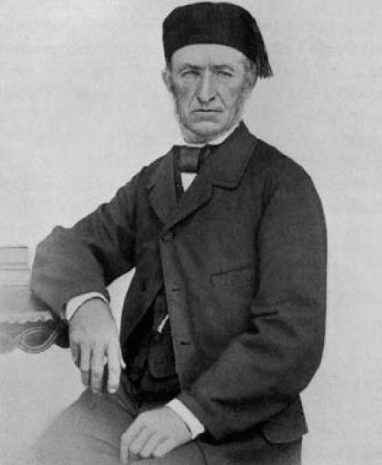 Johann Blatt (1815-1884), Swiss beekeeper from Rütschelen.